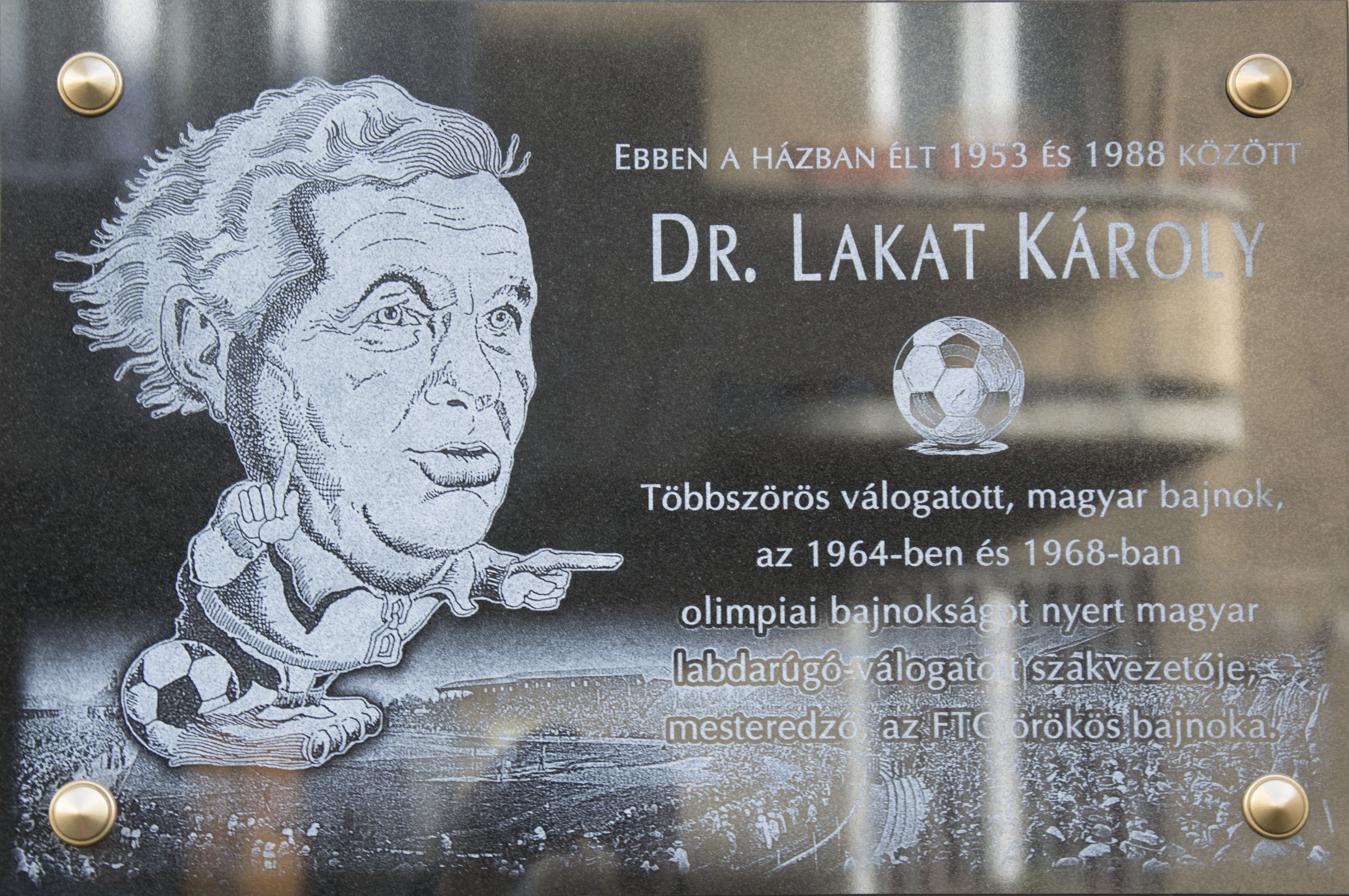 Playue of Károly Lakat (Budapest, Tizedes u. 3.)